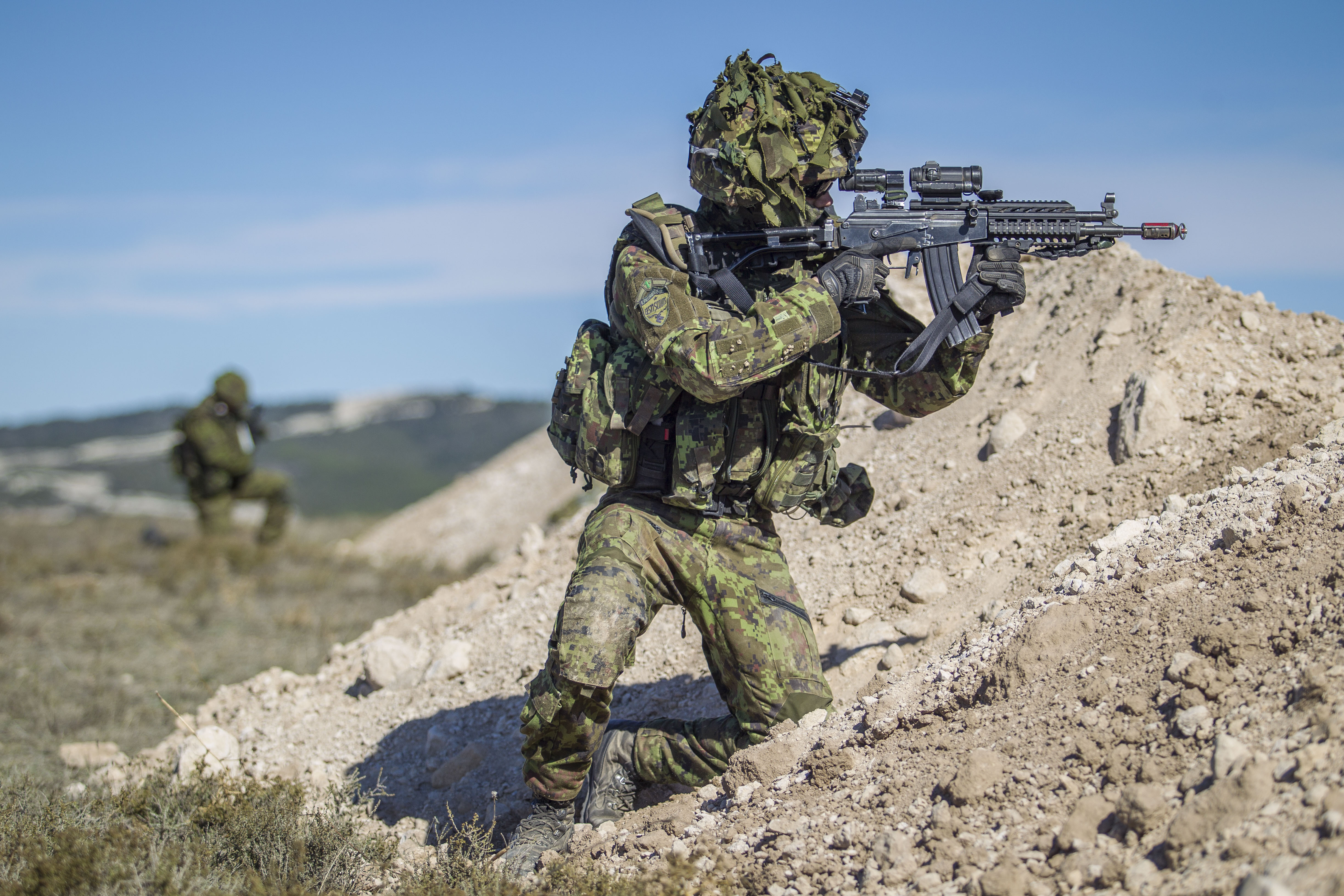 Baltic Battalion soldiers training at San Gregorio, Spain during Trident Juncture 15